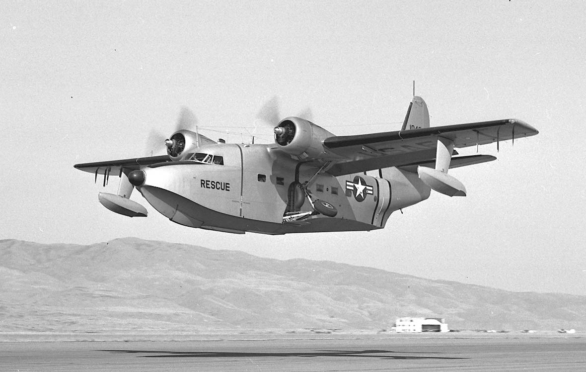 Taking off from Gowen Field, Boise, Idaho in August 1952.